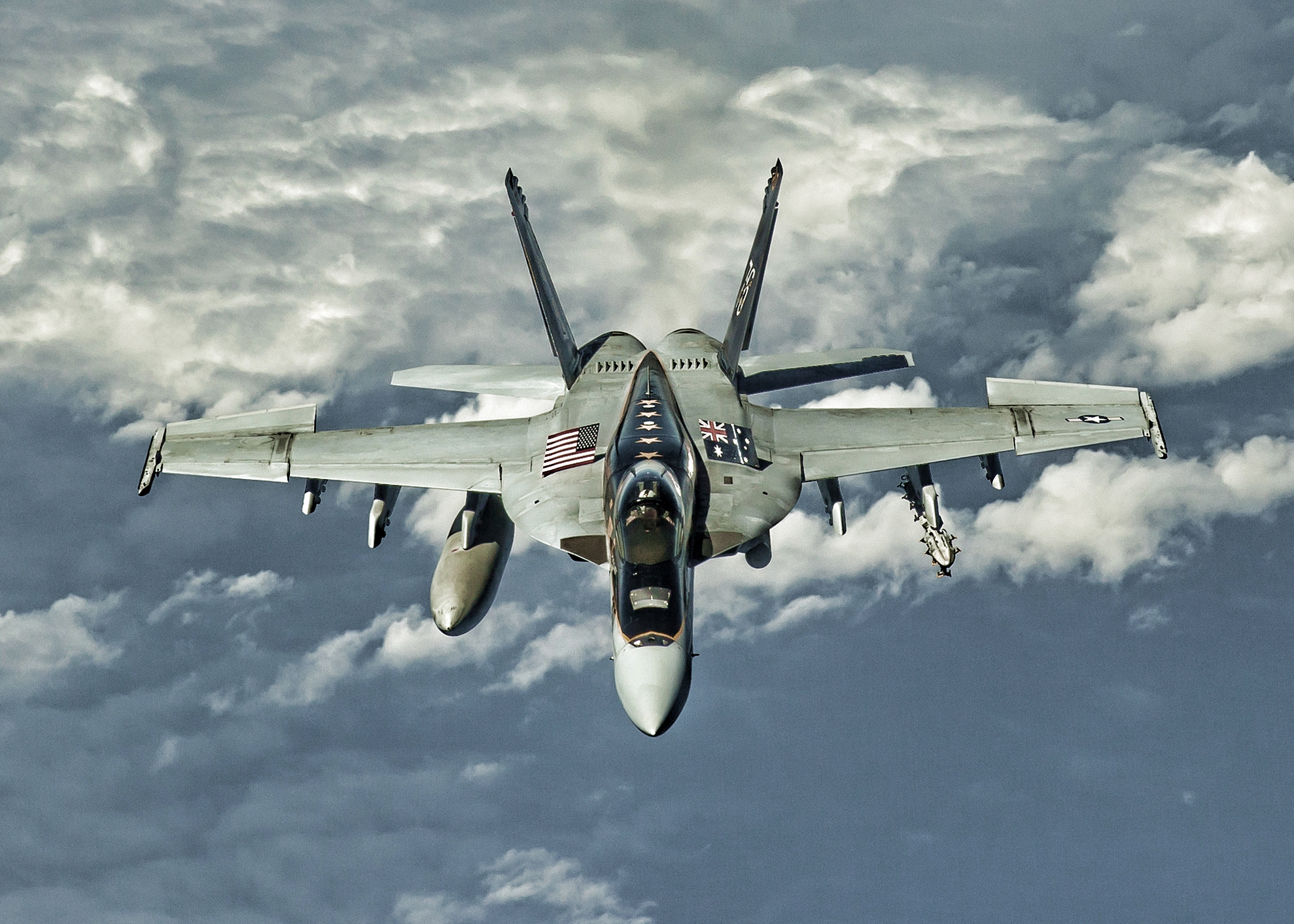 A U.S. Navy Boeing F/A-18E Super Hornet assigned to Strike Fighter Squadron 115 (VFA-115) "Eagles" transits the Bismarck Sea en route to Royal Australian Air Force (RAAF) Base Townsville, Queensland, Australia. VFA-115 was conducting bilateral operations with the RAAF as part of "Exercise Black Dagger".